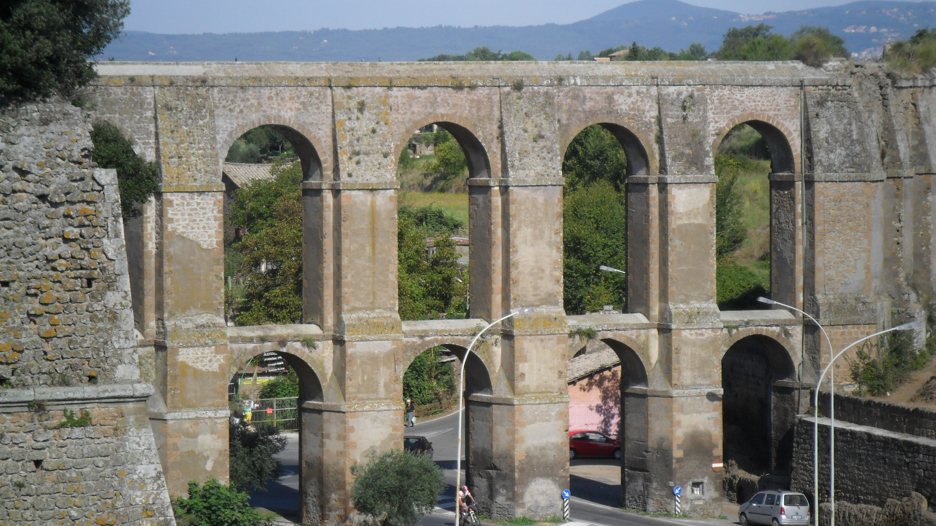 View of the acqueduct of Nepi